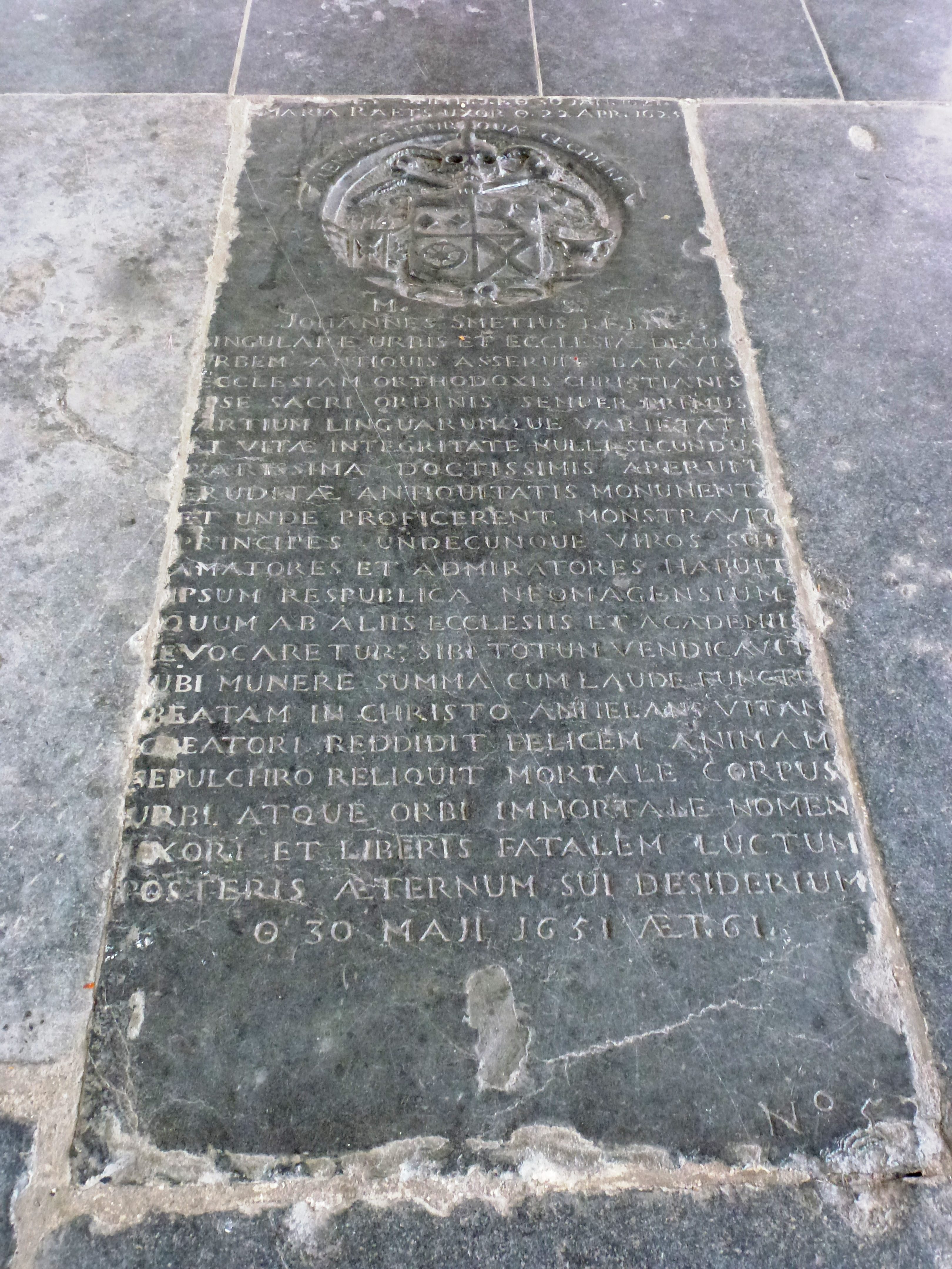 Een der grafstenen in St Stevenskerk (Nijmegen)